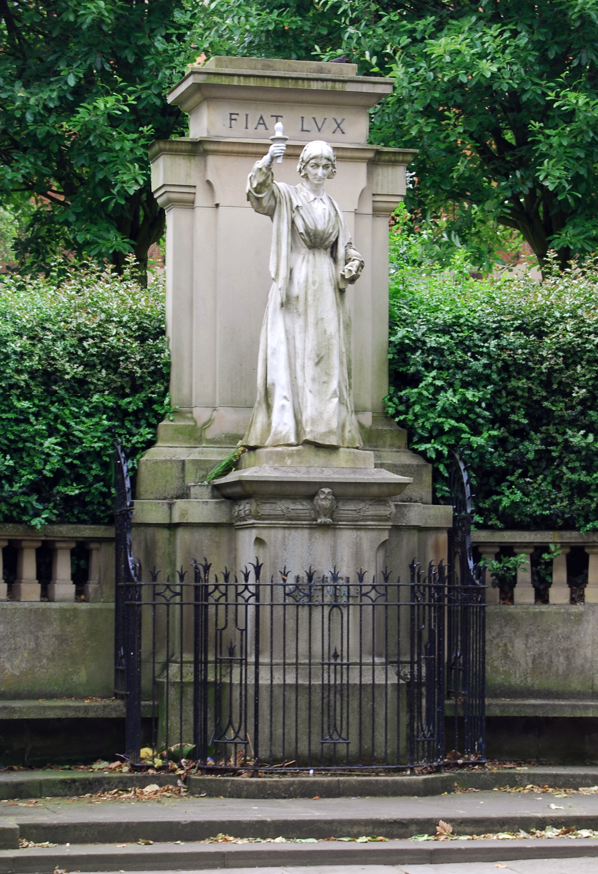 Florence Nightingale Commemorative Statue, London Road, Derby. Outside the closed Derbyshire Royal Infirmary